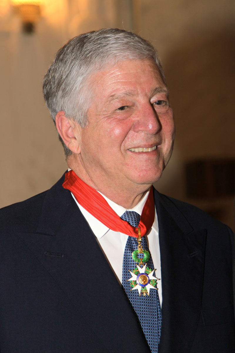 His Royal Highness Crown Prince Alexander received the highest French order, Legion d’Honneur Commander Rank